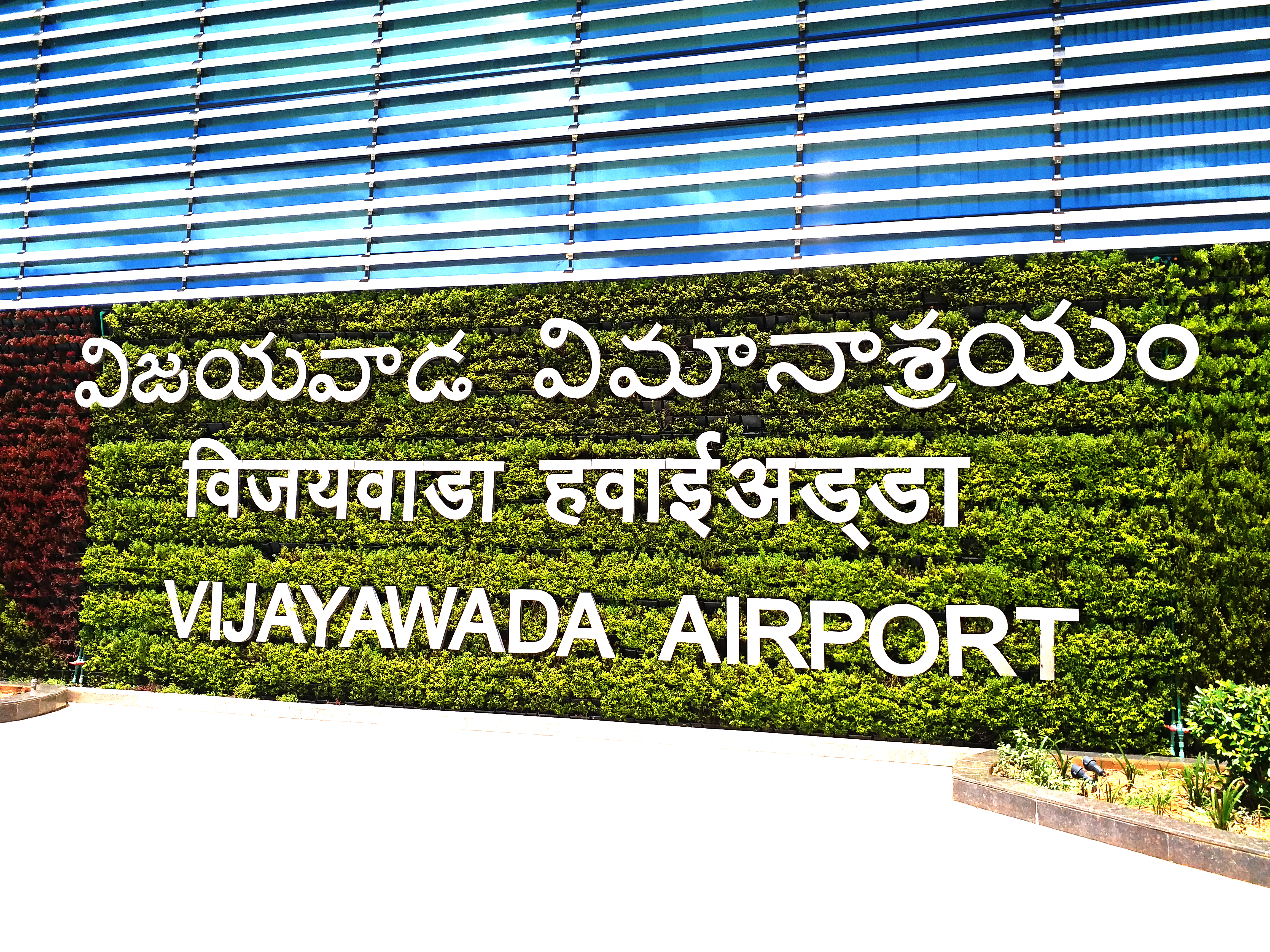 Name Plate At Vijayawada Airport